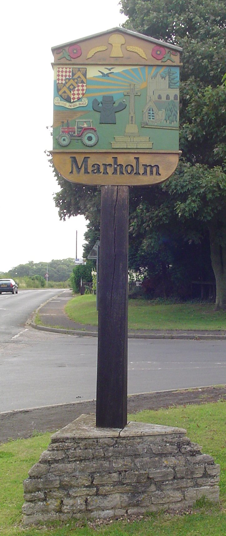 Signpost in Marholm